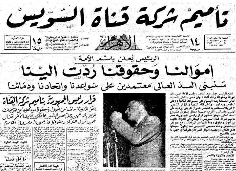 Al-Ahram Newspaper Publish Suez Canal Nationalization